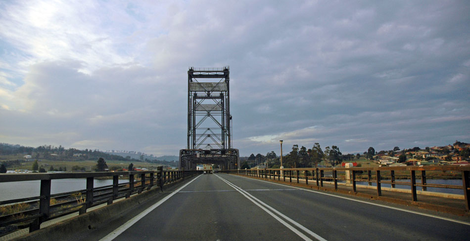 The Bridgewater Bridge (facing east), over the Derwent river between the towns of Granton and Bridgewater.